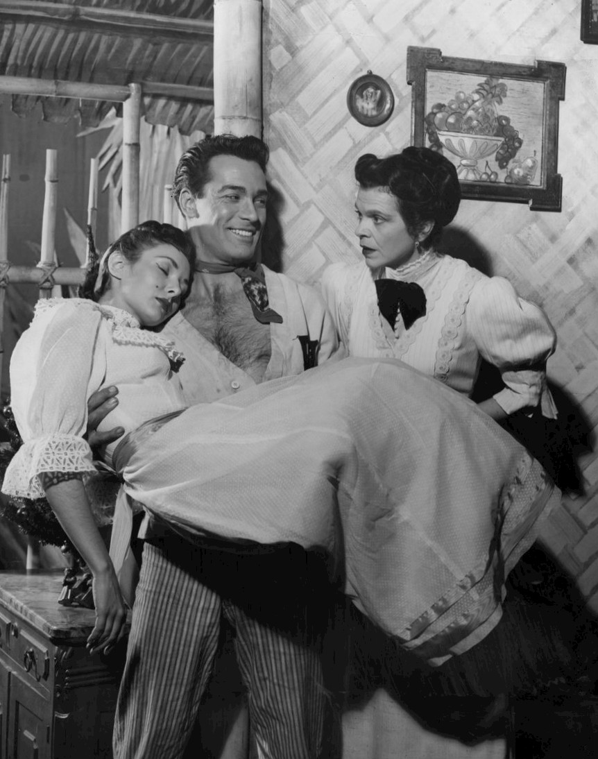 Scene from the Broadway play My Three Angels. From left: Dolores Mann (Marie-Louise), Carl Betz (Alfred) and Dorothy Adams (Emilie, Marie-Louise's mother).